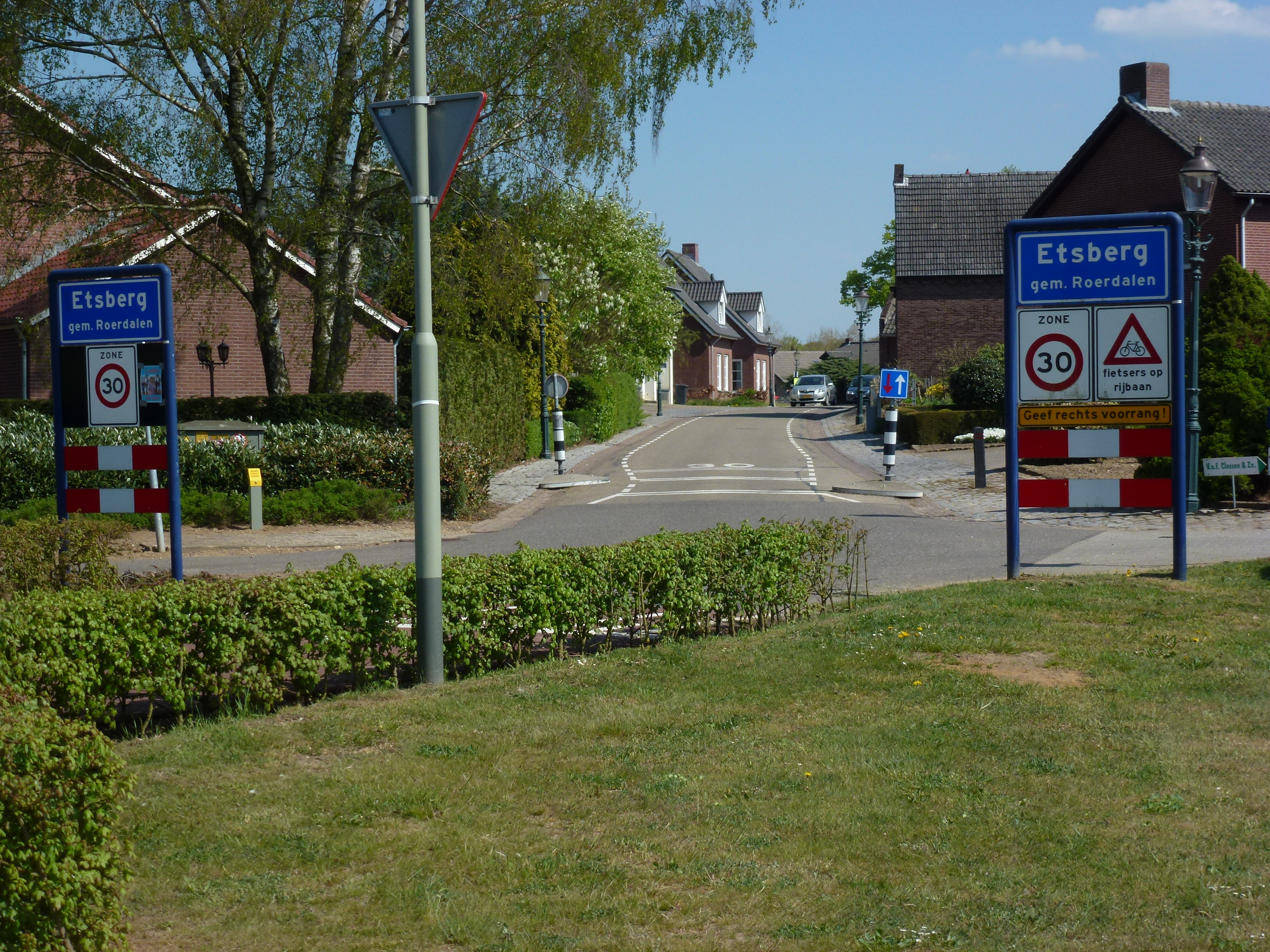 Etsberg (Roerdalen) entreebord